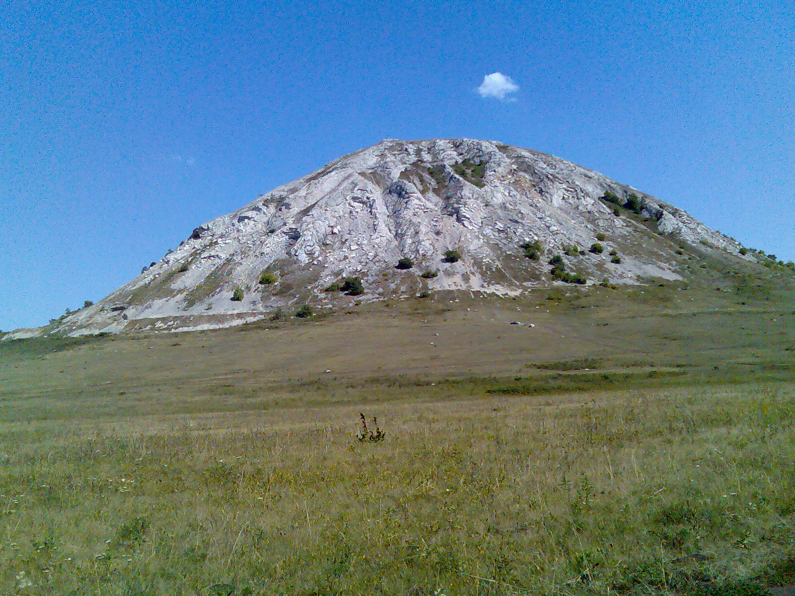 Sheehan Toratau.